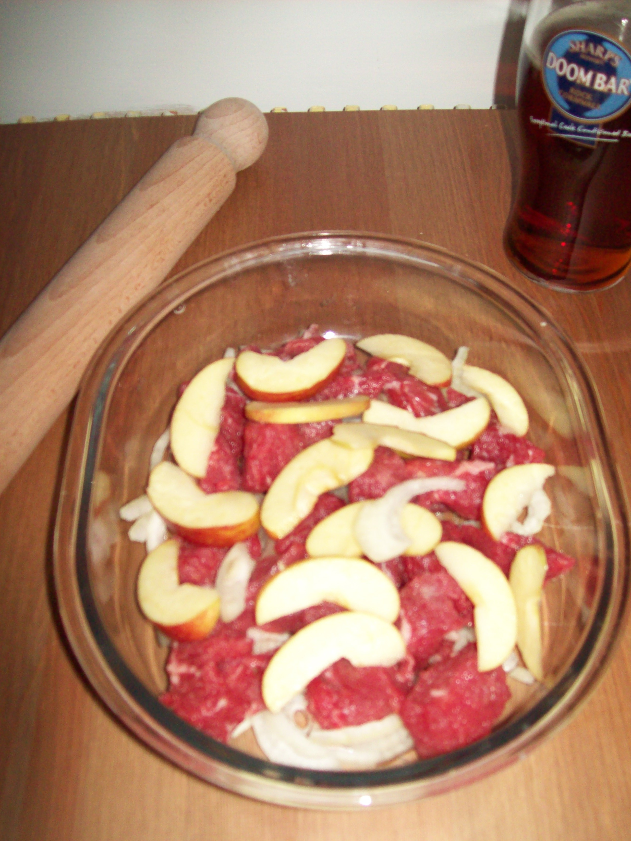 Squab pie, which is lamb, onion and apples, ready for lid and then baking